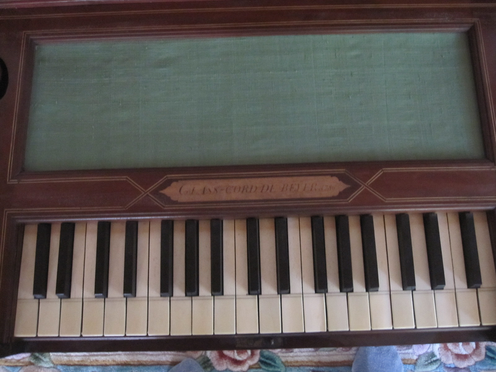 Photo of rare 1786 Beyer Glasschord Other information One of only a handful of Glasschords still extant Captioned As PageCaptionGlasschordGlasschord from the Hans Adler collection.